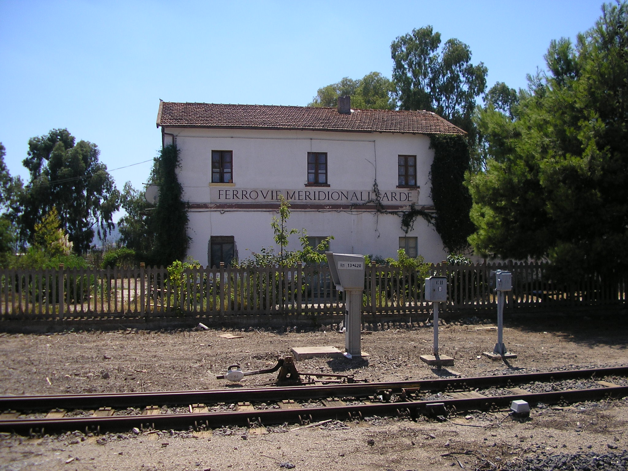 The former Ferrovie Meridionali Sarde station of Siliqua, end of the railway Siliqua-Calasetta (closed between 1968 and 1974), as seen from the FS station of Siliqua, in Sardinia, Italy